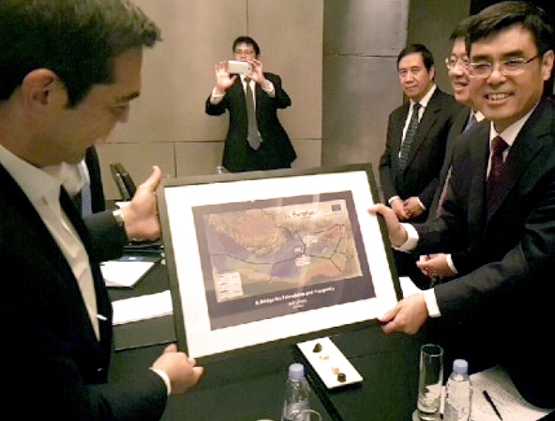 On 12th May, 2017 on Trilateral meeting the Greek Prime Minister Alexis Tsipras met State Grid Corporation of China Chairman Shu Yinbiao in Beijing and CEO Euroasia Interconnector Nasos Ktorides. Nasos Ktorides and Alexis Tsipras promoted Euroasia Interconnector